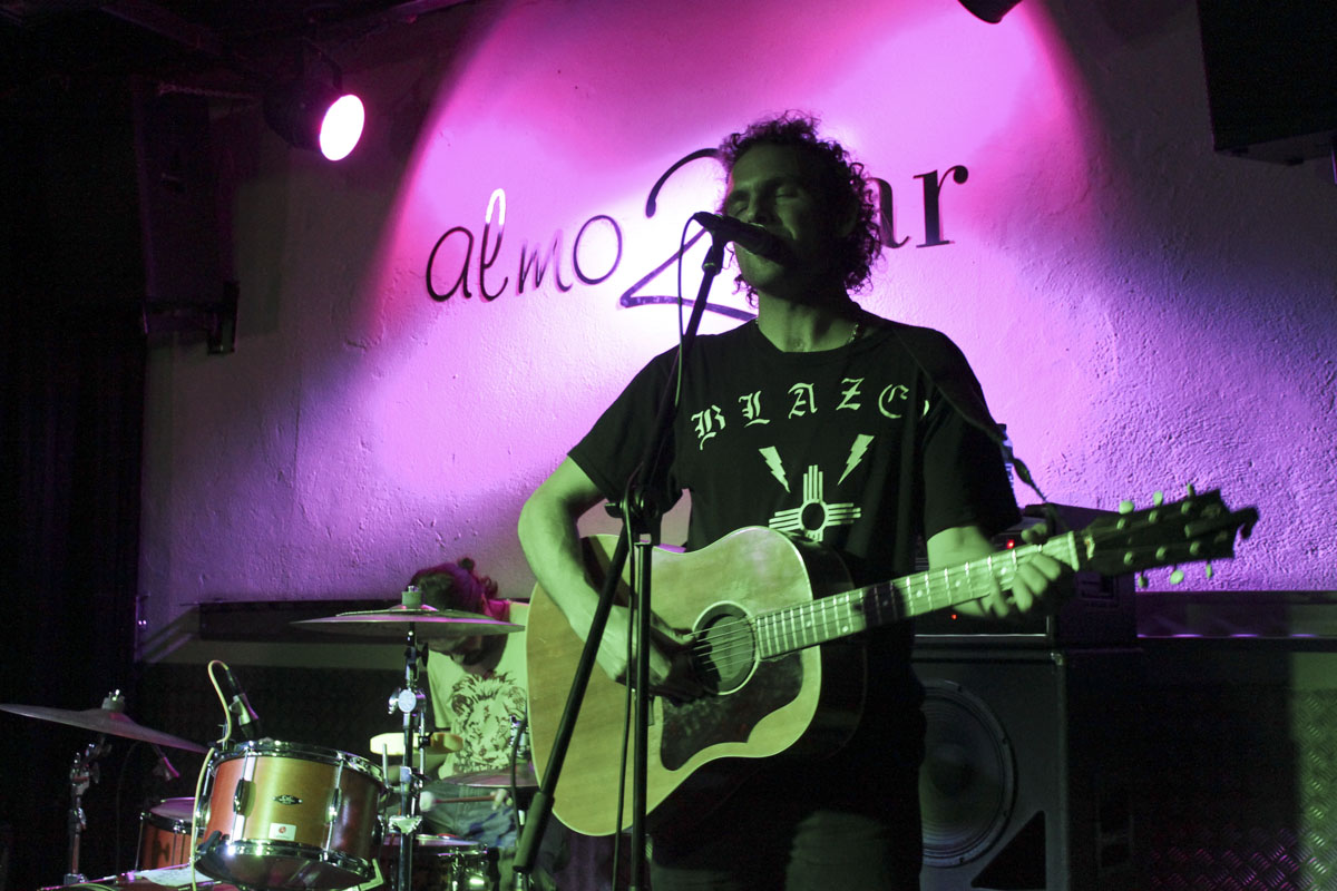 Amen Dunes performing at Almo2bar in Barcelona, Spain, September 2014